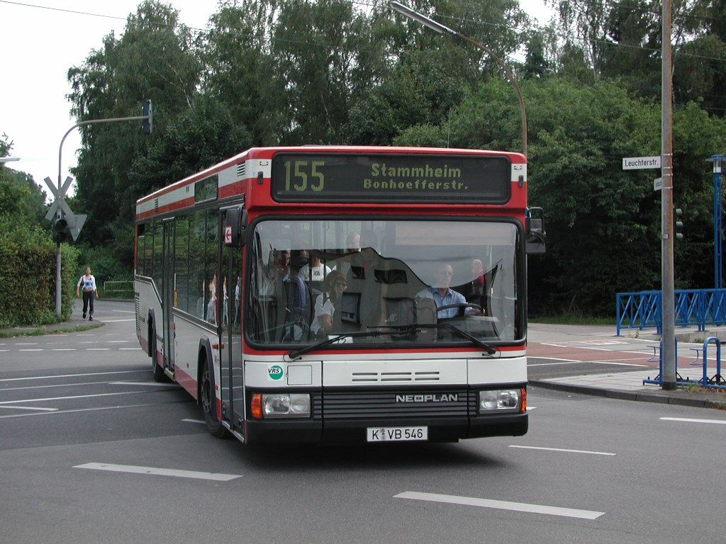 Neoplan N4014 NF bus (reg. K-VB 546) in Cologne, Germany.